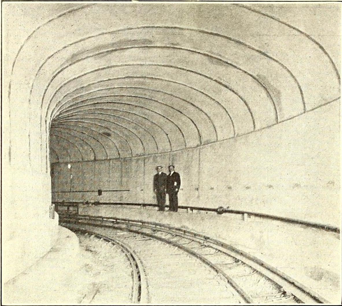 Title: Electric railway journal Year: 1908 (1900s) Authors: Subjects: Electric railroads Publisher: (New York) McGraw Hill Pub. Co Text Appearing Before Image: 782 ELECTRIC RAILWAY JOURNAL. (Vol. XXXVII. No. 18. Text Appearing After Image: Hudson & Manhattan Railroad—General View of Yard with Inspection Shed and Switch Tower on the Right May 6, 1911.) ELECTRIC RAILWAY JOURNAL. 783 tribute to individual machines the material placed on the floorby the crane. The plan of the shops on page 781 gives a complete list ofthe tools in the machine shop with the exception of a new No.4 Brown & Sharp miller and a Davis expansion borer. Prac-tically all of the other important tools, including the lathe,hydraulic press and boring mill in the wheel-handling section,were furnished by the Niles-Bement-Pond Company. Thelarger shop tools are operated by direct-connected motors andthe smaller tools in the machine shop are driven from lineshafting, which in turn is belted to an electric motor. All ofthe motors are 600 volts d.c. There are also installed a Foxsand-drying stove and a home-made conduit pipe bender of theair-cylinder type. A recent alteration in machine shop practicehas been the replacement of carbon drills by high-sp